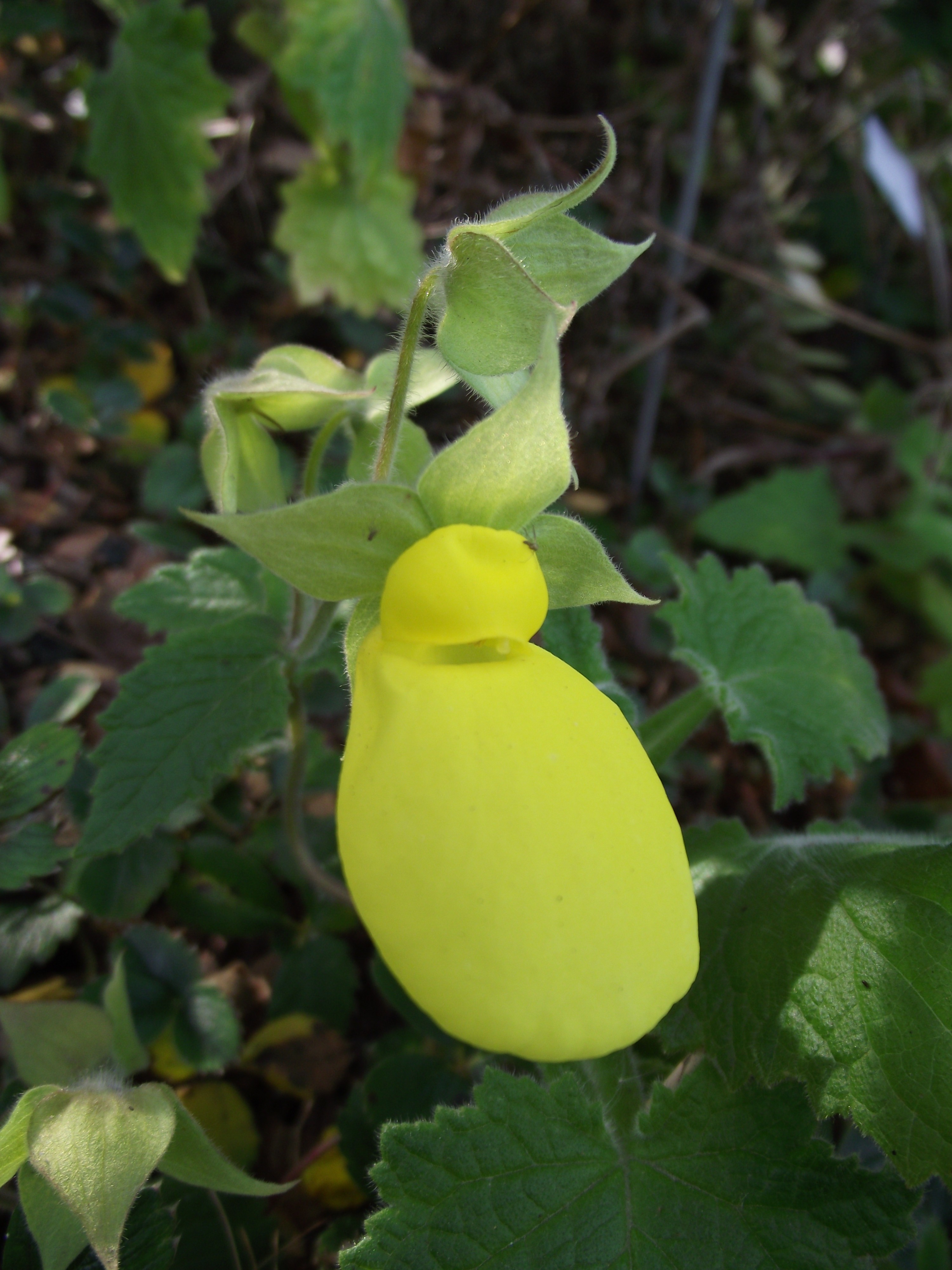 Calceolaria tomentosa at the University of California Botanical Garden, Berkeley, California, USA. Identified by sign.